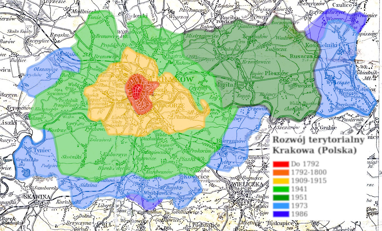 Combined files File:Okolice Krakowa XIXwiek.jpg & File:Rozwój terytorialny Krakowa - PL.svg for better visualisation of the expansion of the city